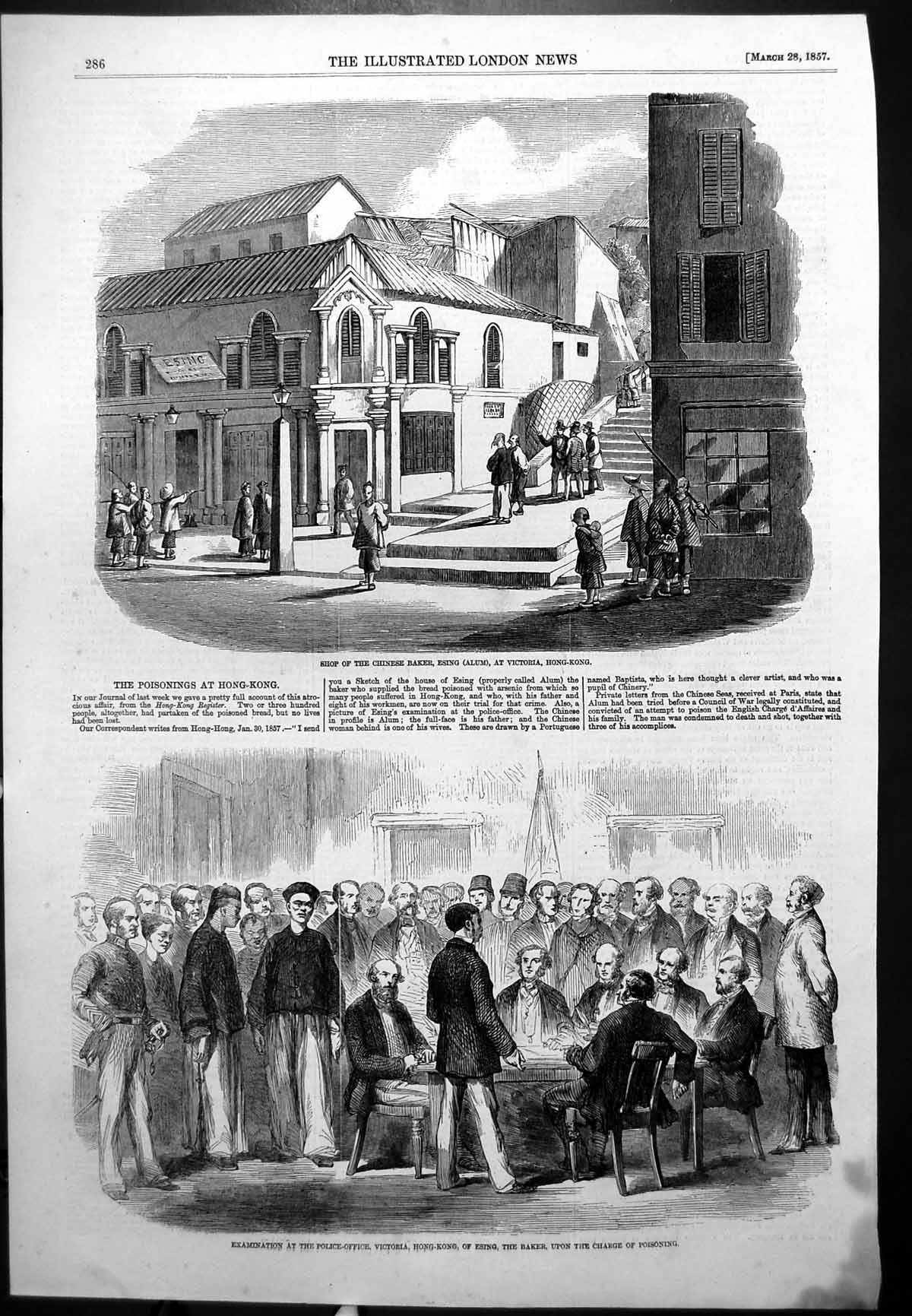 Esing Bakery Incident